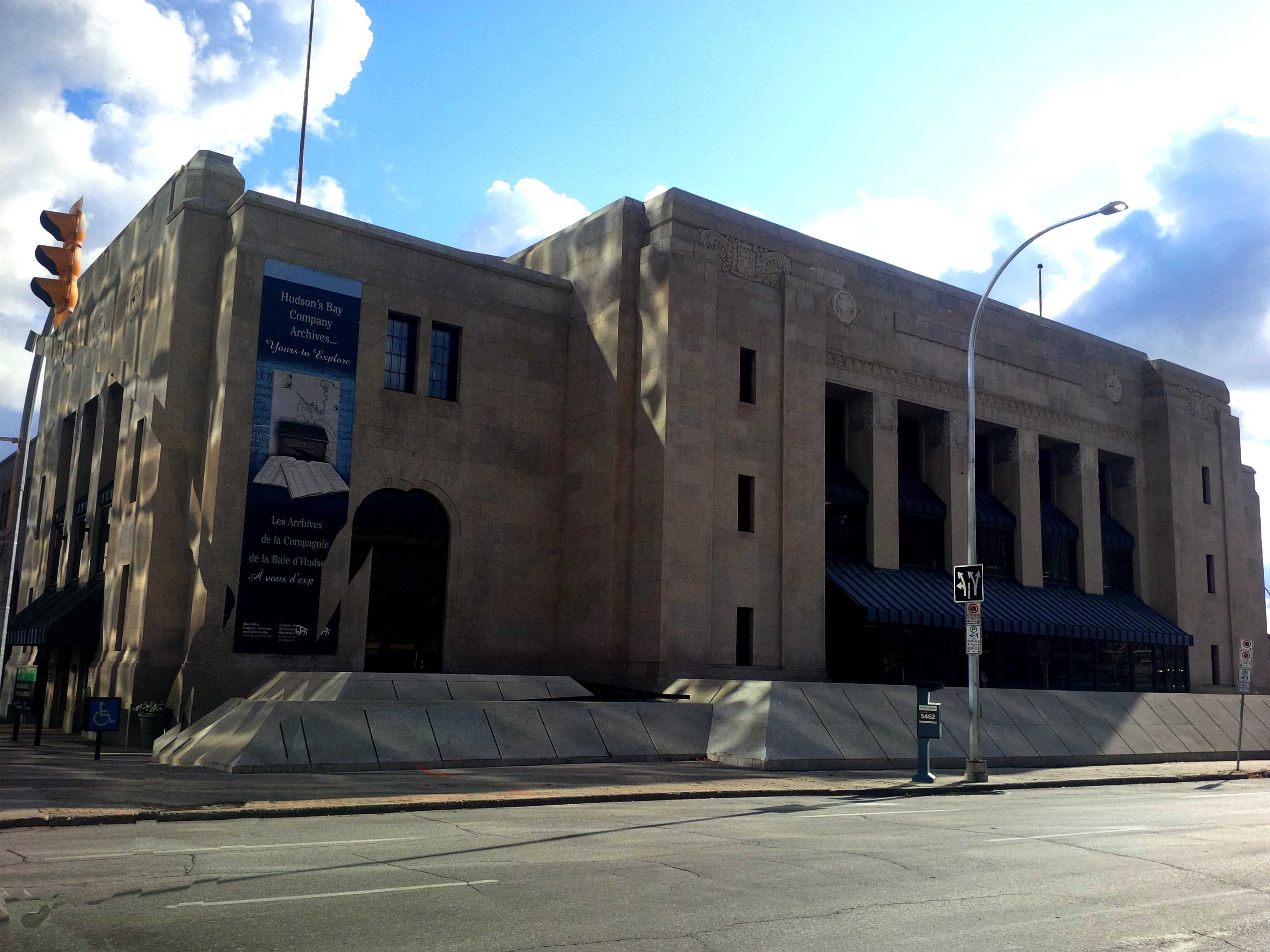 200 Vaughan St., Winnipeg, Manitoba. Provincial and HBC Archives.